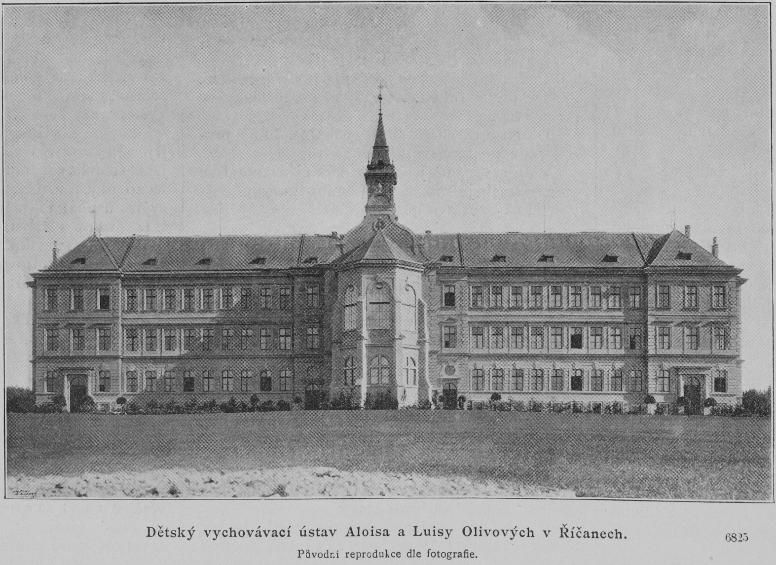 Building of Alois Oliva´s re-education institution for neglected children in Říčany, Bohemia (present-day Czech Republic) around the time of its opening in October 1896. At present (2010), the building serves as hospital for children “Olivovna”.